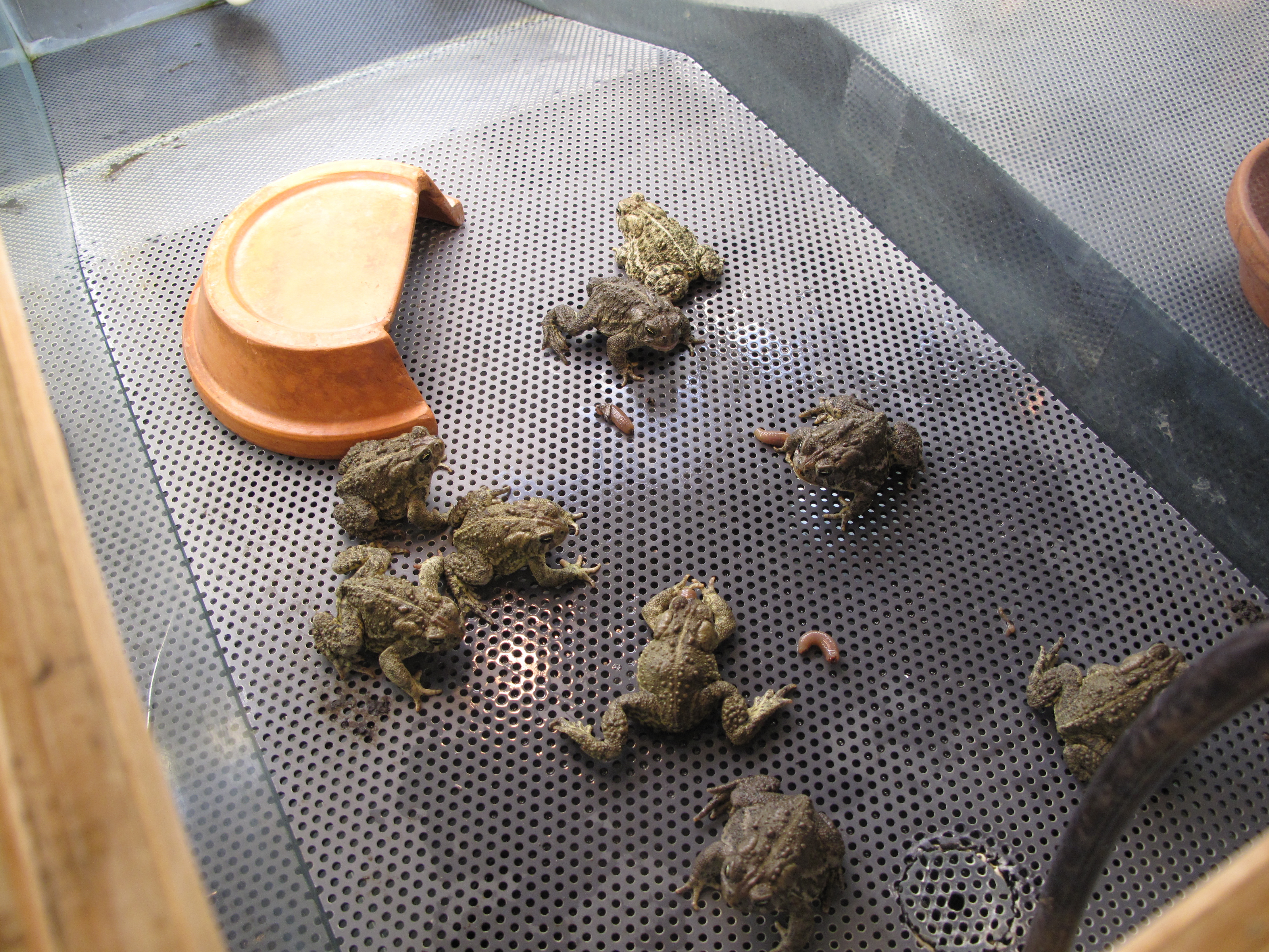 Feeding Time!! The toads enjoy live worms. Credit: Stephanie Raine / USFWS